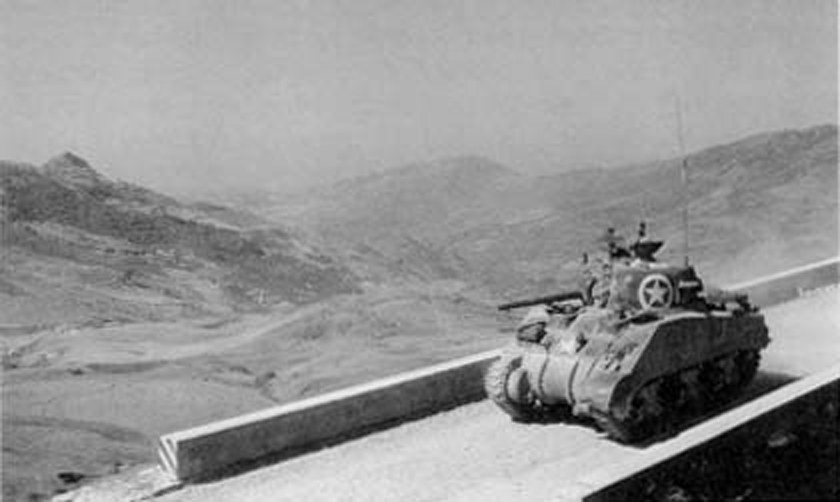 A Sherman tank moves past Sicily's rugged terrain.